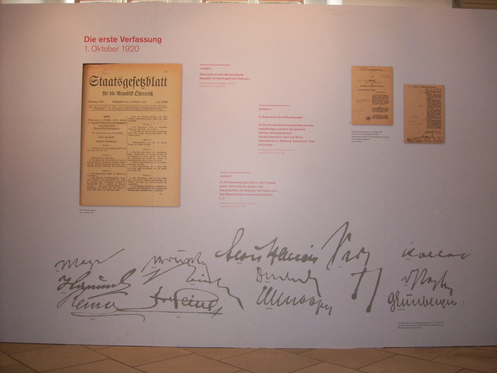 Photo of the Original of the Austrian Constitutional Act 1920 and the as shown in the exhibition "90 years of federal constitution" in Vienna 2010.